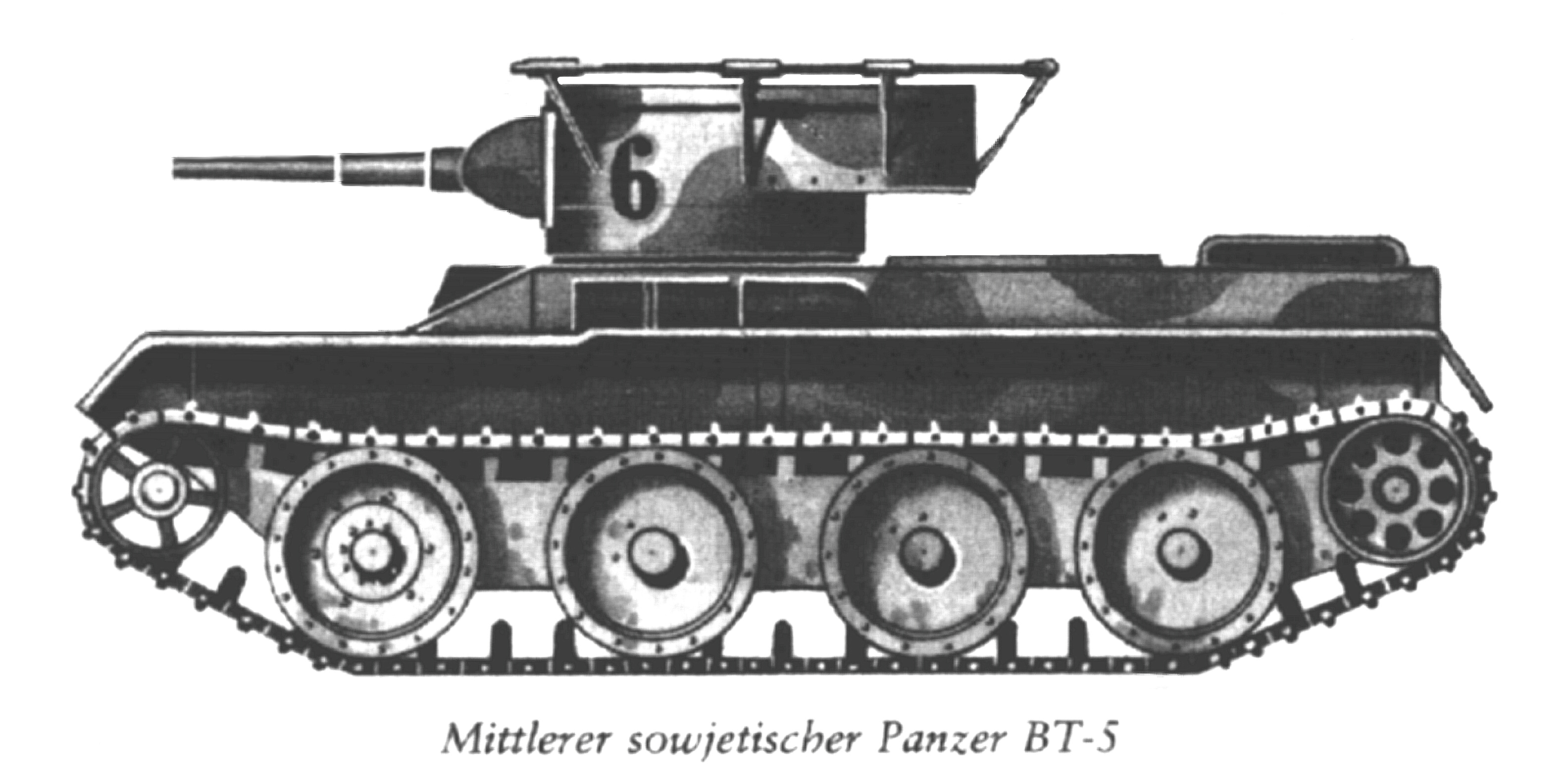 Pencil drawing from a photograph, made by the Gefr. Treudler for a propaganda wall newspaper issue dedicated to the anniversary of the Soviet Army in 1978